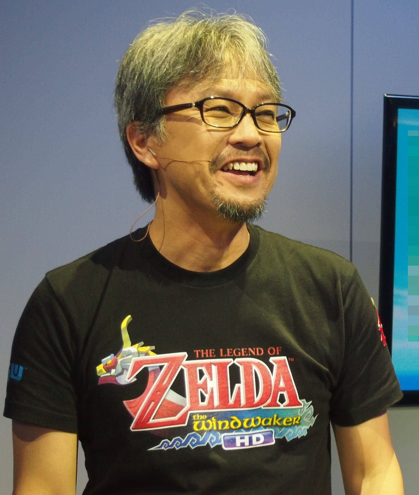 Eiji Aonuma, producer of the The Legend of Zelda series, at E3 2013.